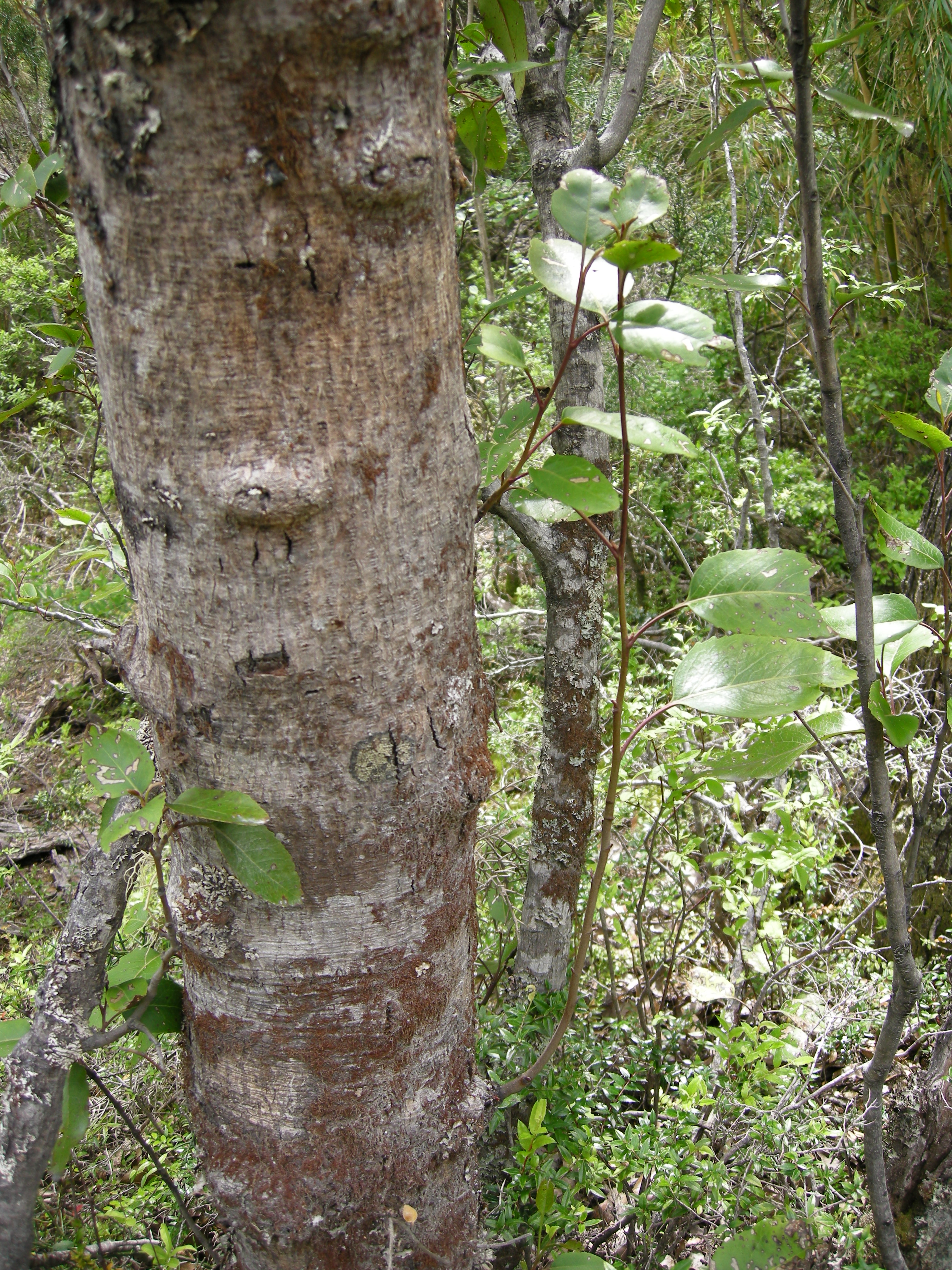 Trunk and branch of Lomatia hirsuta. Picture taken in Los Alerces National Park (Chubut province, Argentina).